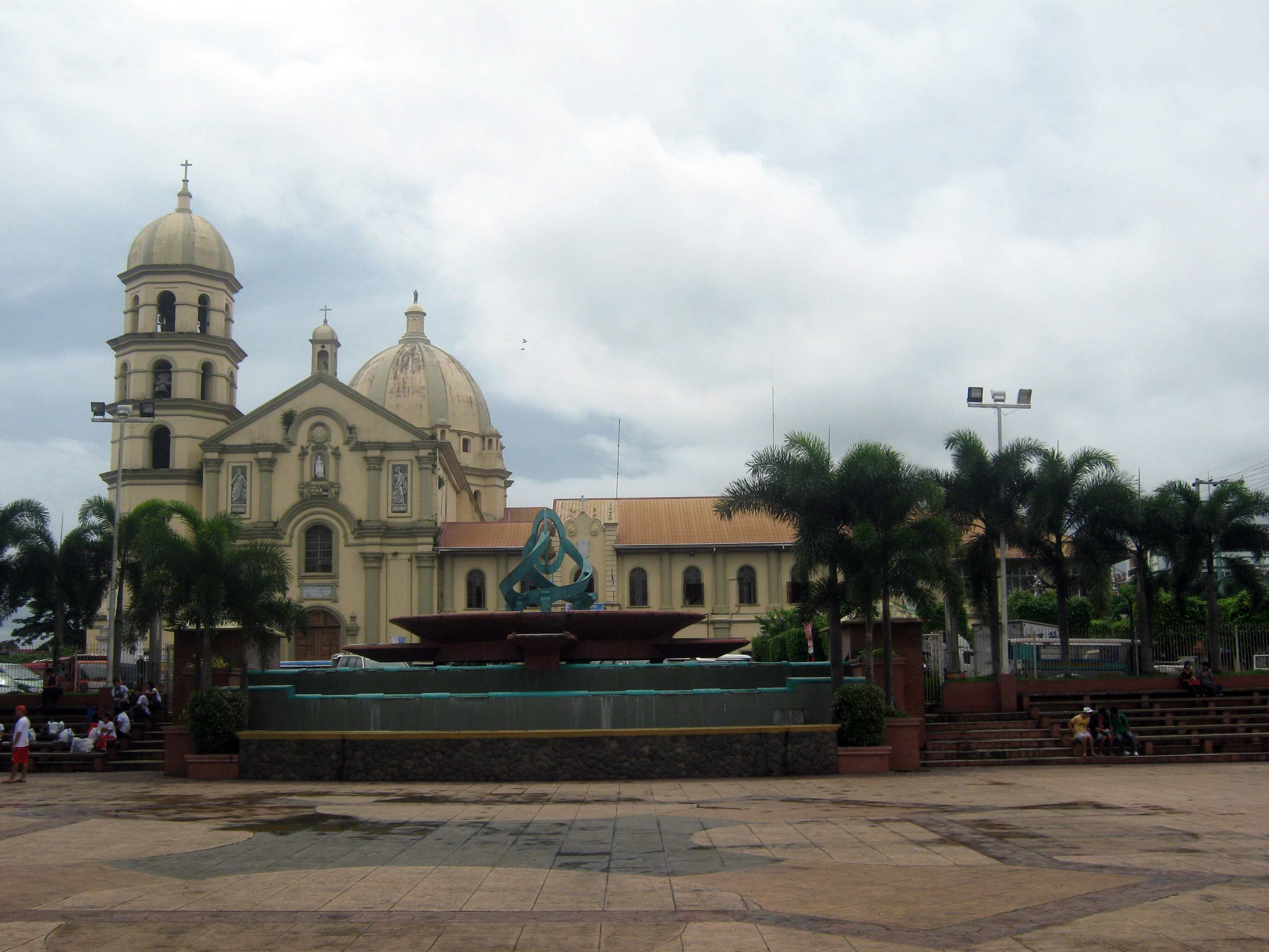 St. Sebastian Cathedral in Lipa City, Philippines.